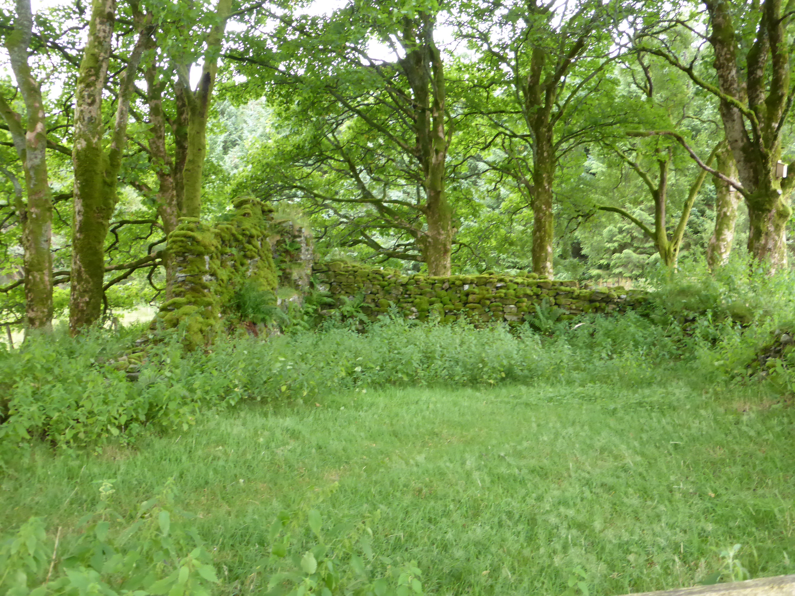 St. Fillians Priory near the West Highland Way between Inverarnan und Tyndrum.